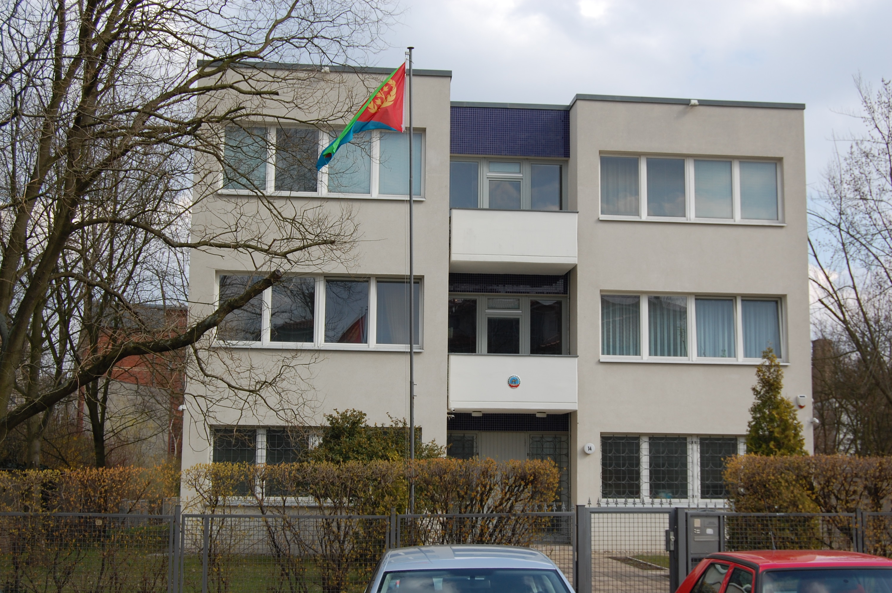 Residence of the Embassador of Eritrea in Berlin